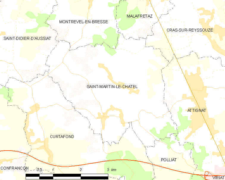 Map of French commune: Saint-Martin-le-Châtel Map commune FR insee code 01375.png